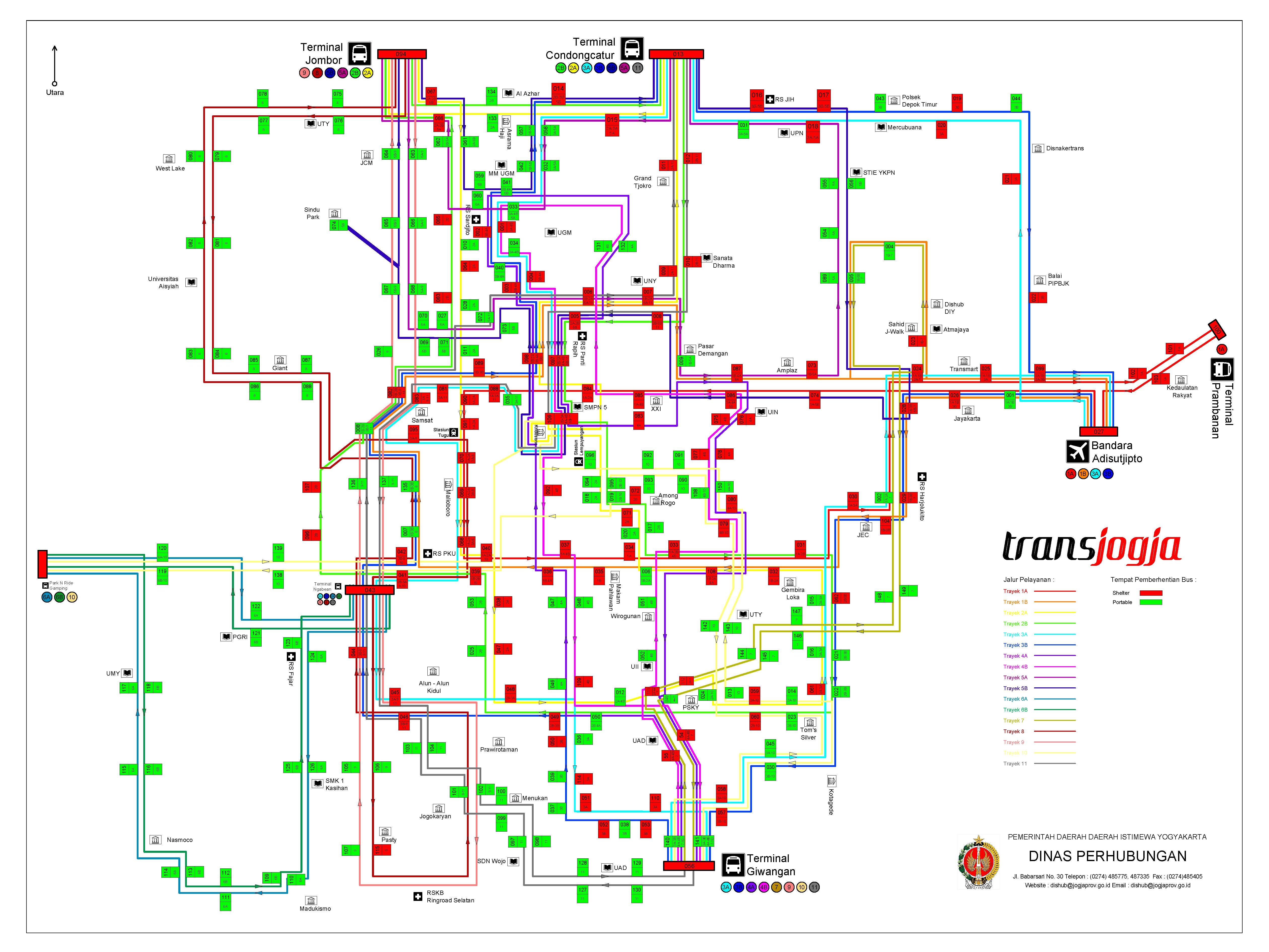 2017 route map of the Trans Jogja bus line, made by the Yogyakarta transport department